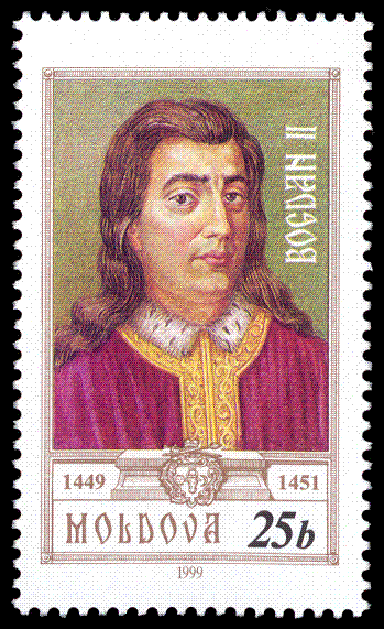 Stamp of Moldova